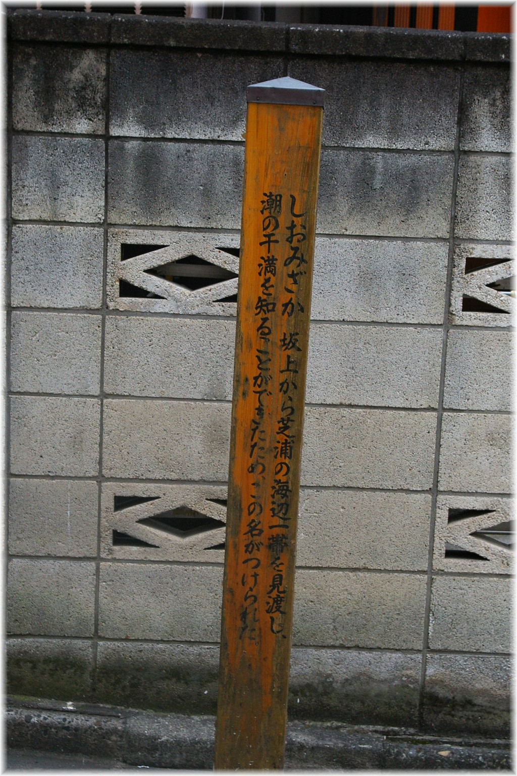 Shiomi-zaka Minato Tokyo